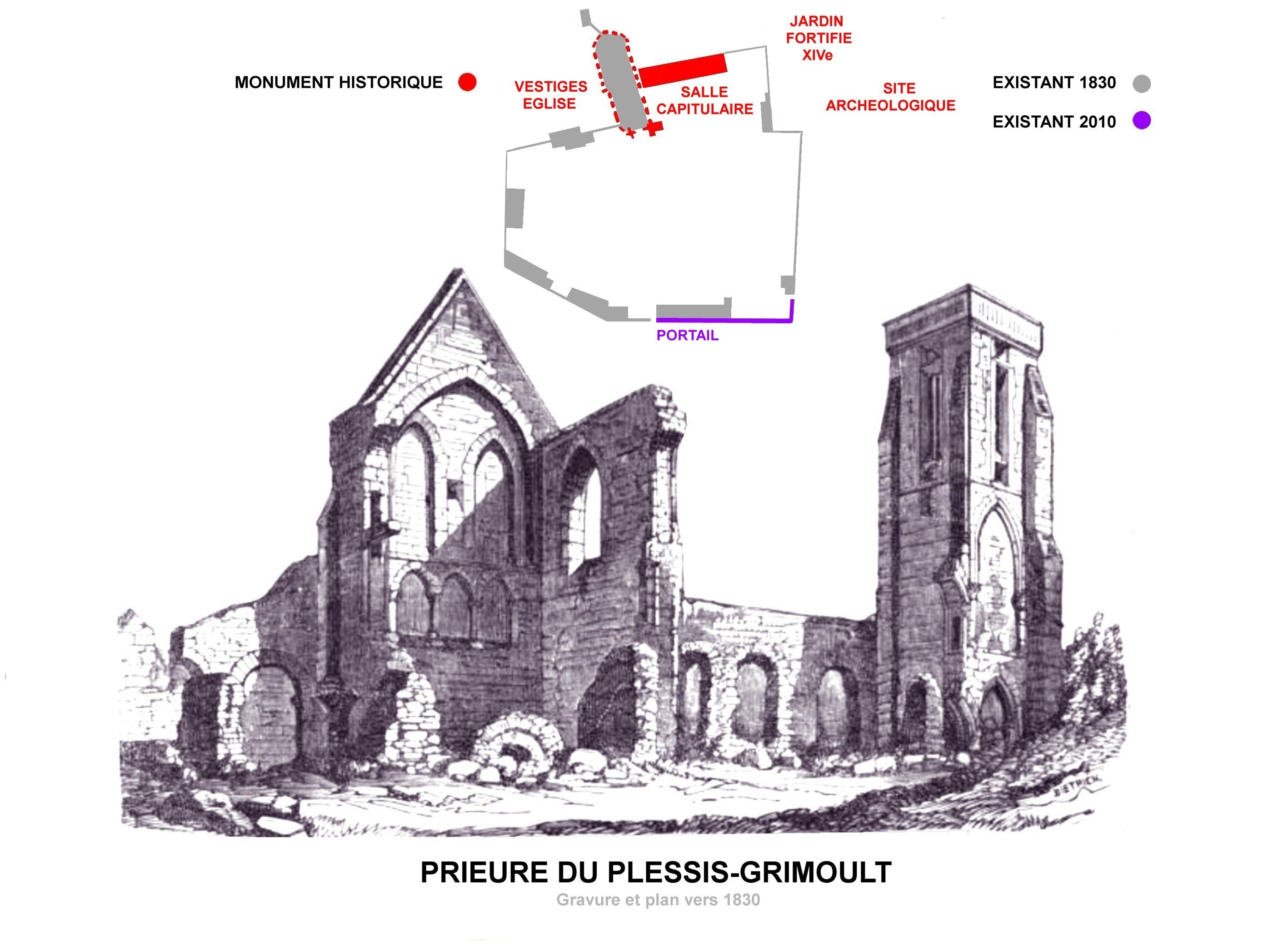 Dessin et montage sur plan du cadastre napoléonien et gravure retouchée du domaine public de 1830 de l'ouvrage d'Arcisse de Caumont, Statistique monumentale du Calvados, tome: 3, page: 225